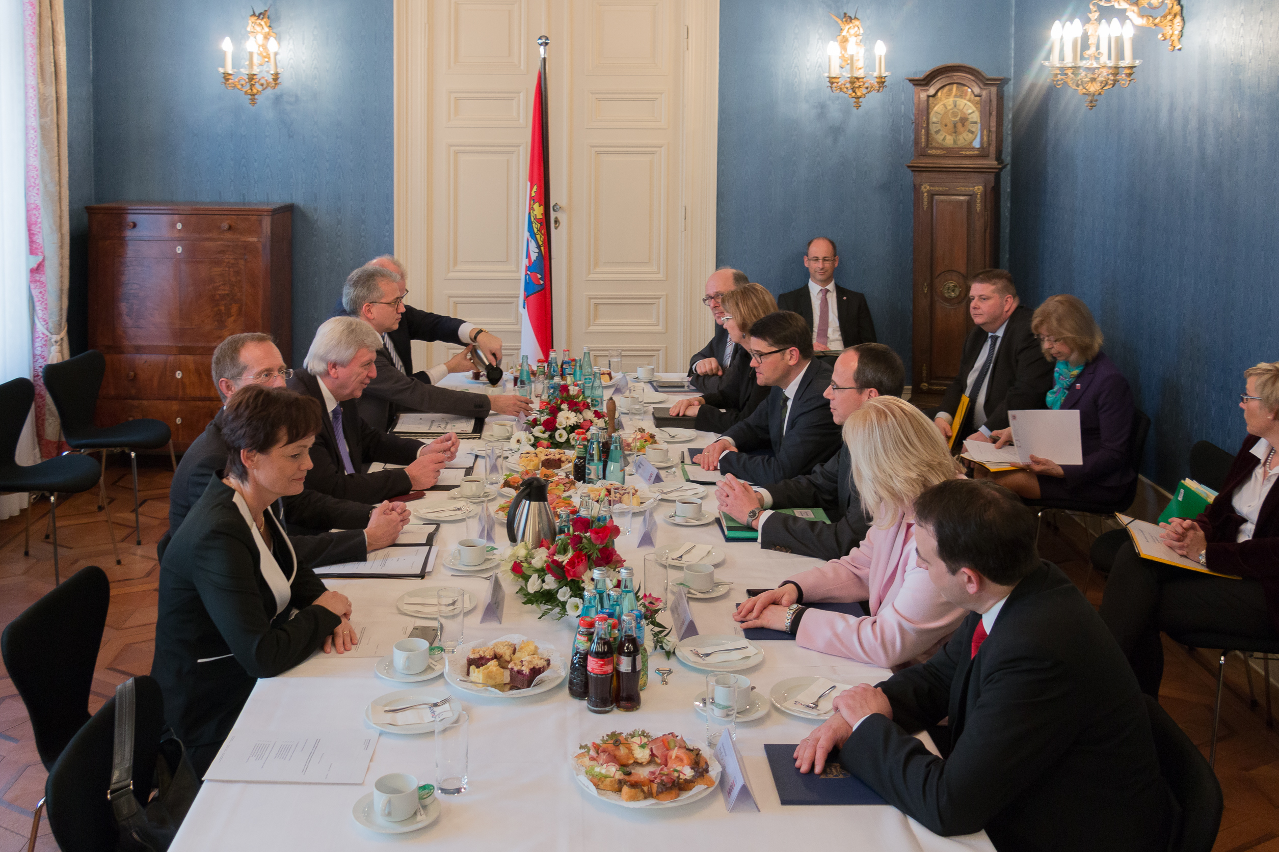 The first meeting of the Cabinet Bouffier II of the black-green coalistion in Hesse